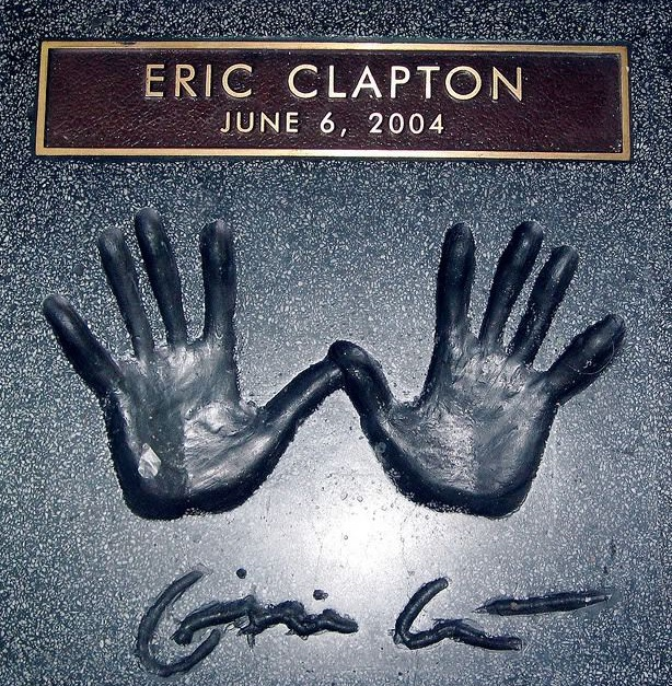 This is a photograph of Eric Clapton's Rock Walk Introduction / Award in Hollywood, CA.